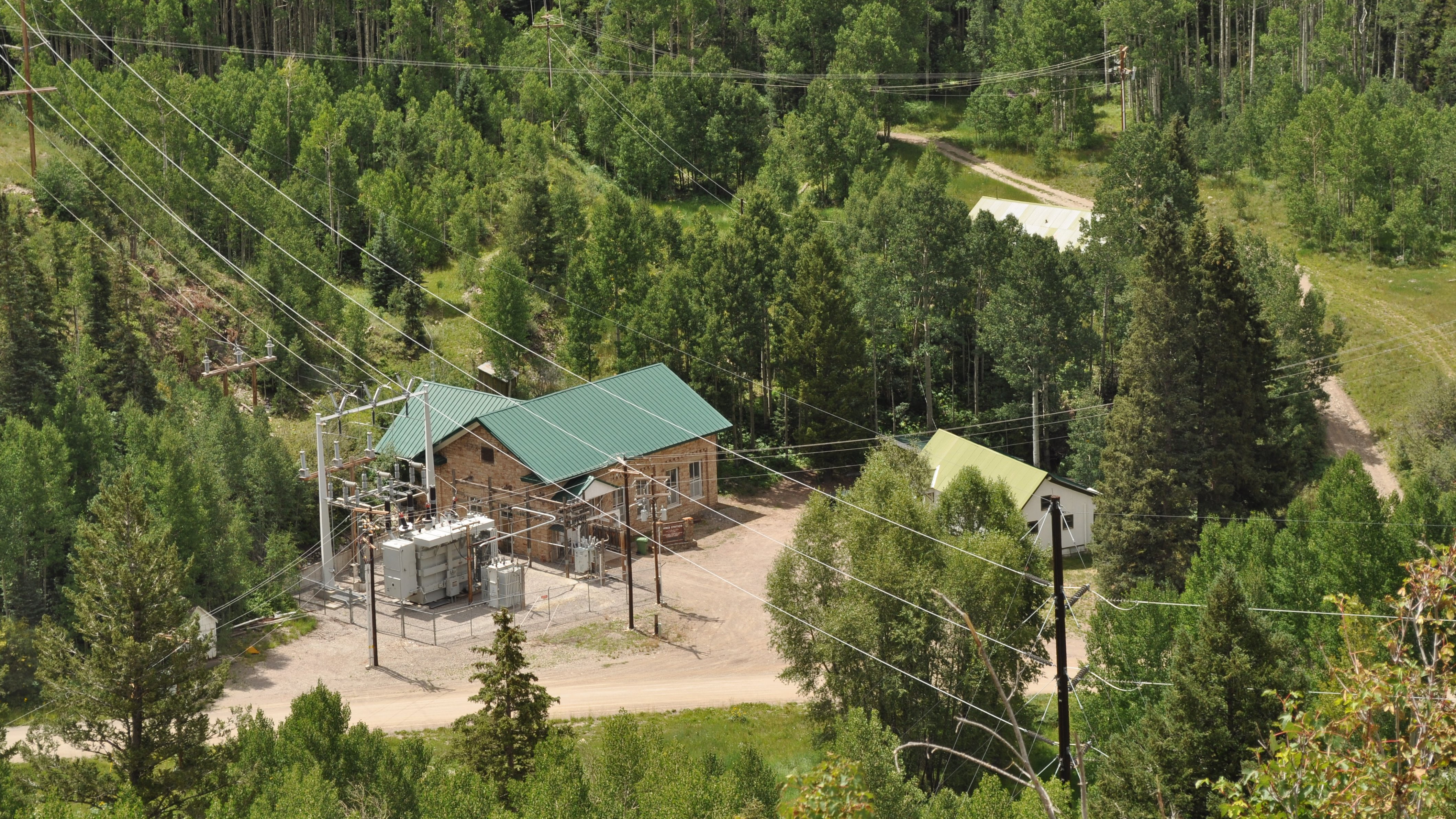 Ames Hydroelectric Generating Plant, located near Ophir, Colorado.